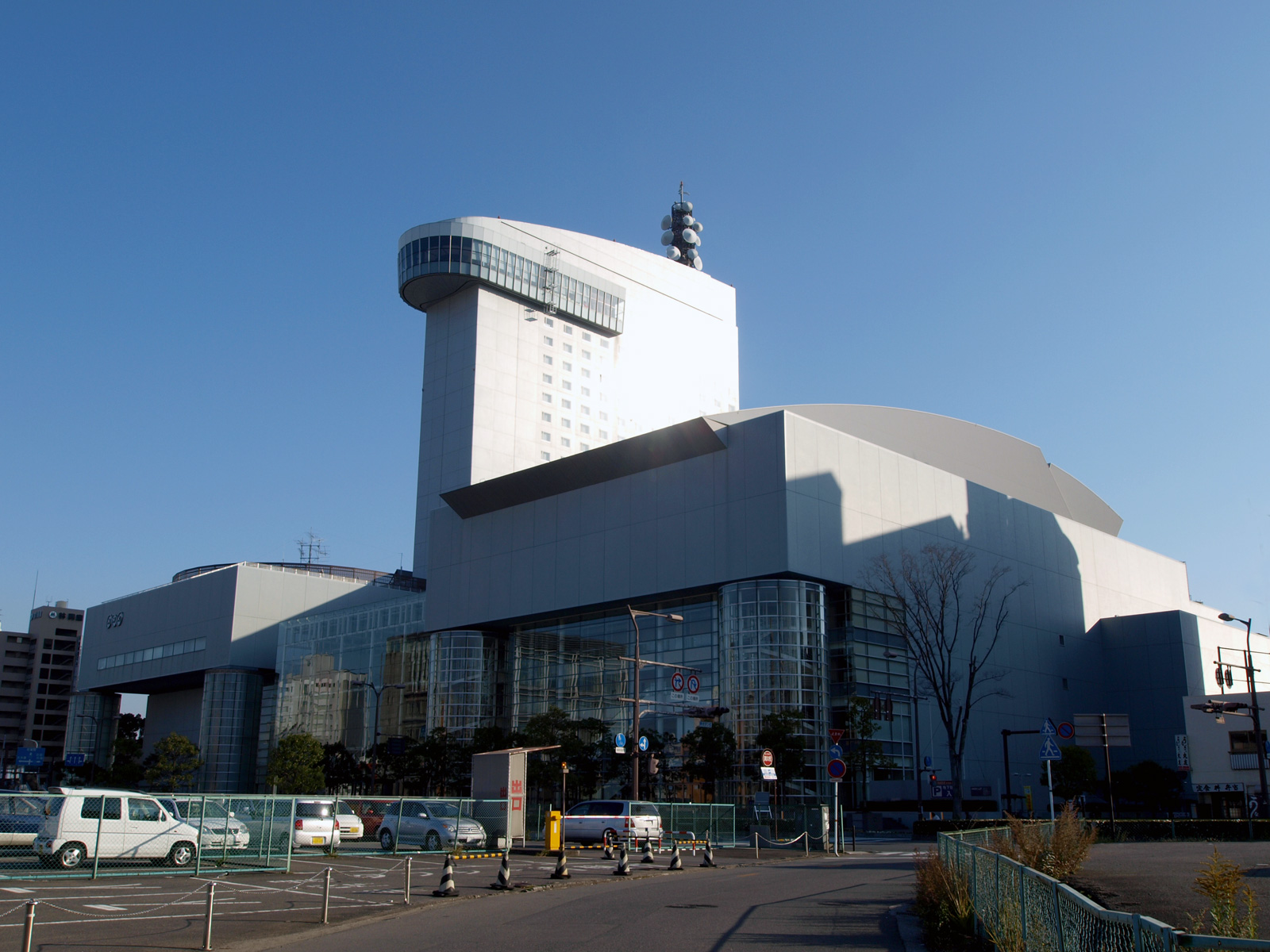 OASIS Hiroba 21, Oita Pref., Japan